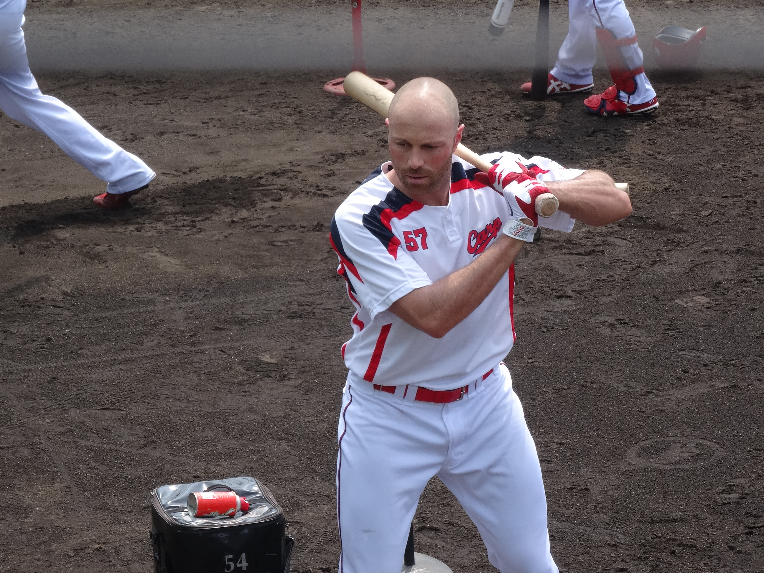 Nate Schierholtz, outfielder of the Hiroshima Toyo Carp, at Hanshin Naruohama Baseball Ground.